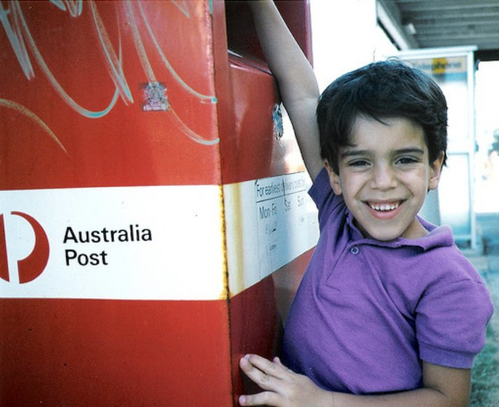 Australia post red pick-up box